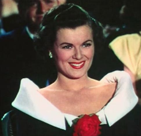 Barbara Hale in Jolson Sings Again - trailer (cropped screenshot)